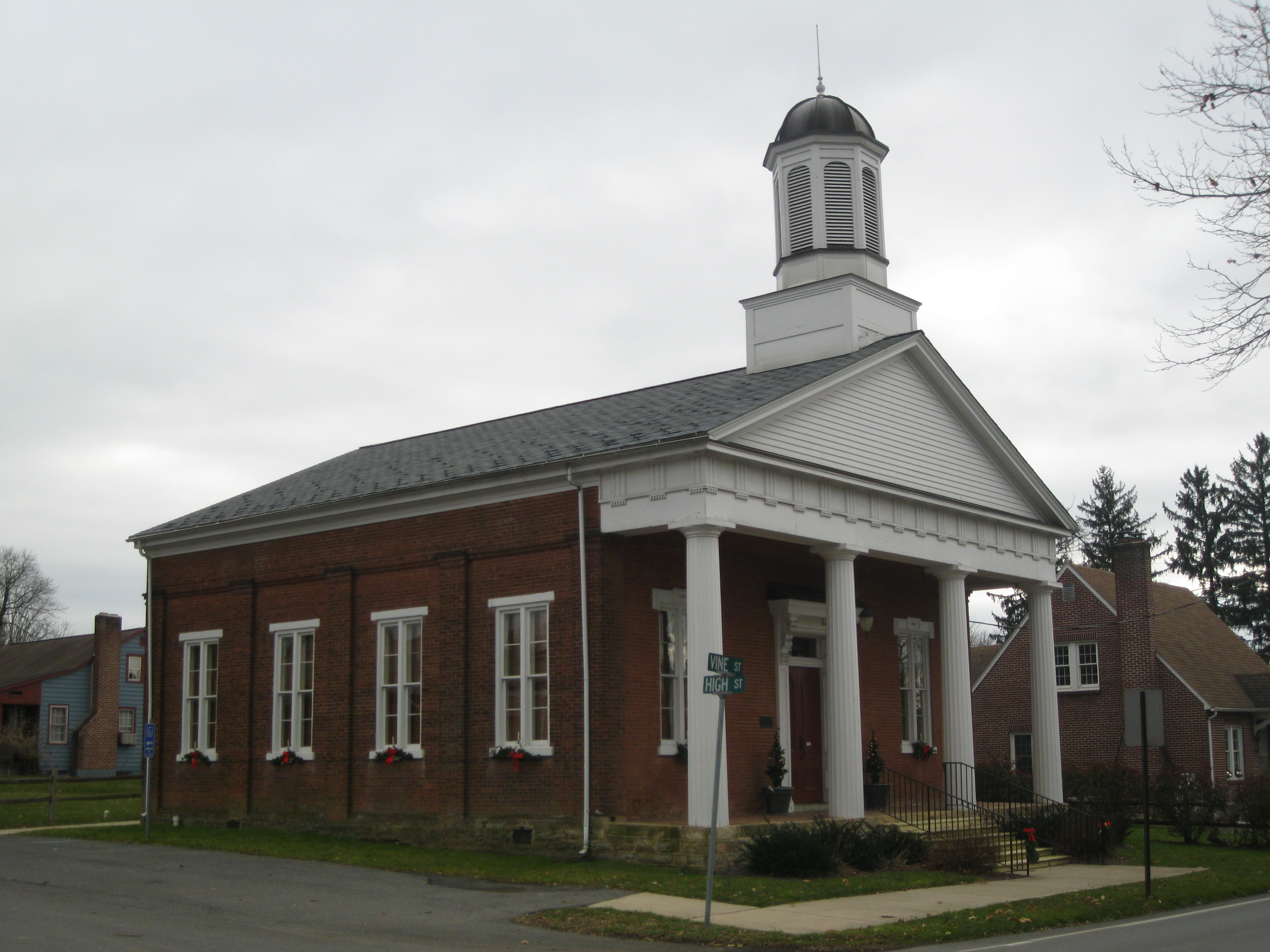 New Berlin Presbyterian Church in New Berlin, Pennsylvania in the United States of America. Built in 1843, added to the National Register of Historic Places in 1972.